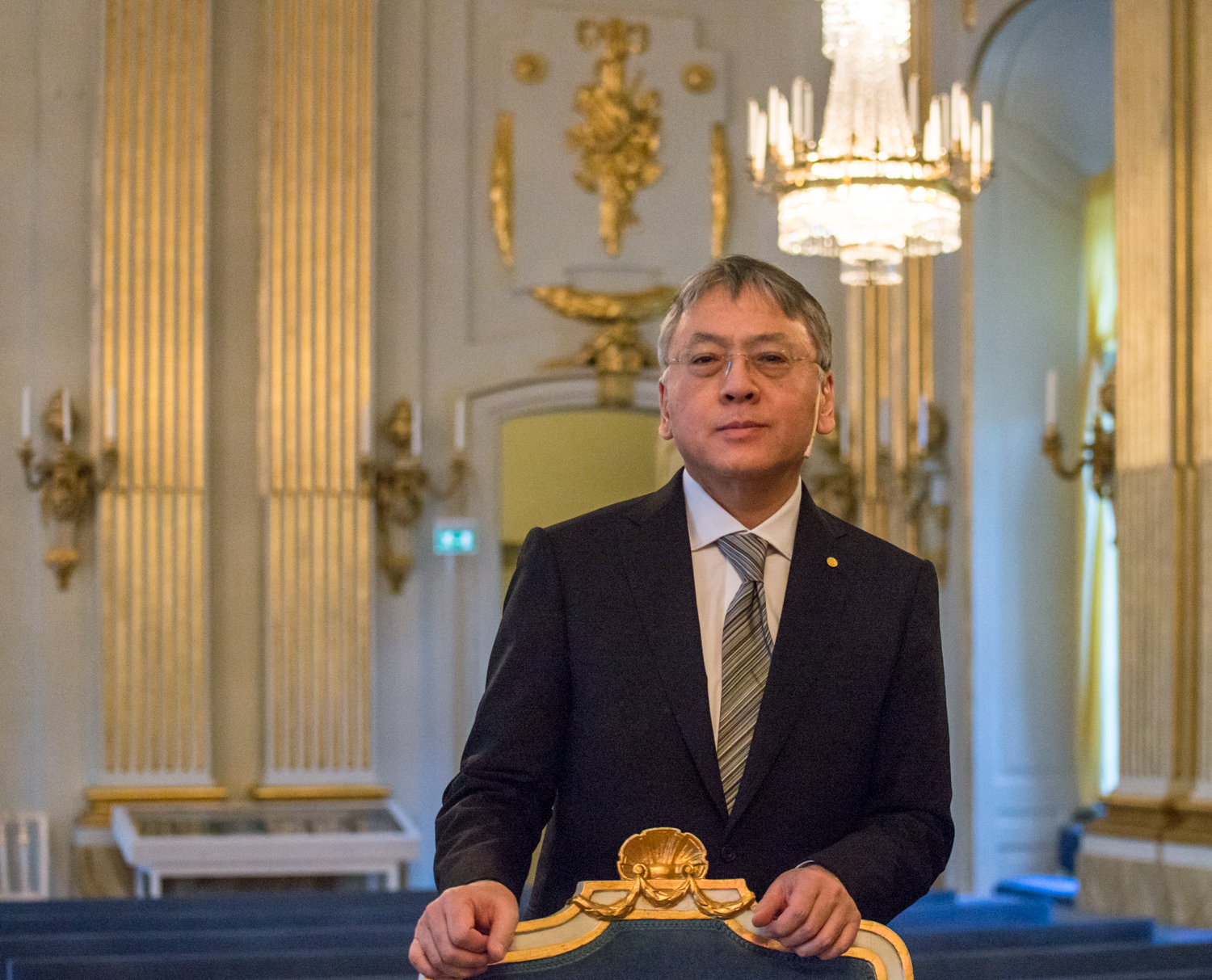 Kazuo Ishiguro in the Stockholm Stock Exchange during the Swedish Academy's press conference on December 6, 2017.